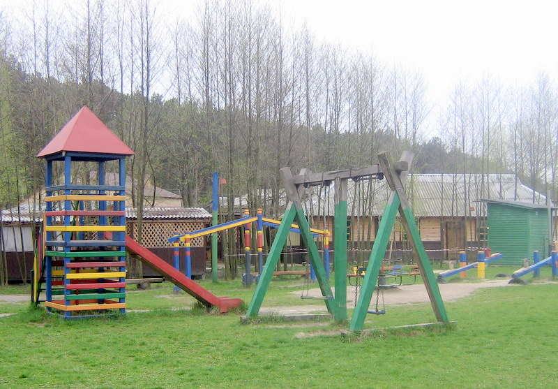 Child's ground